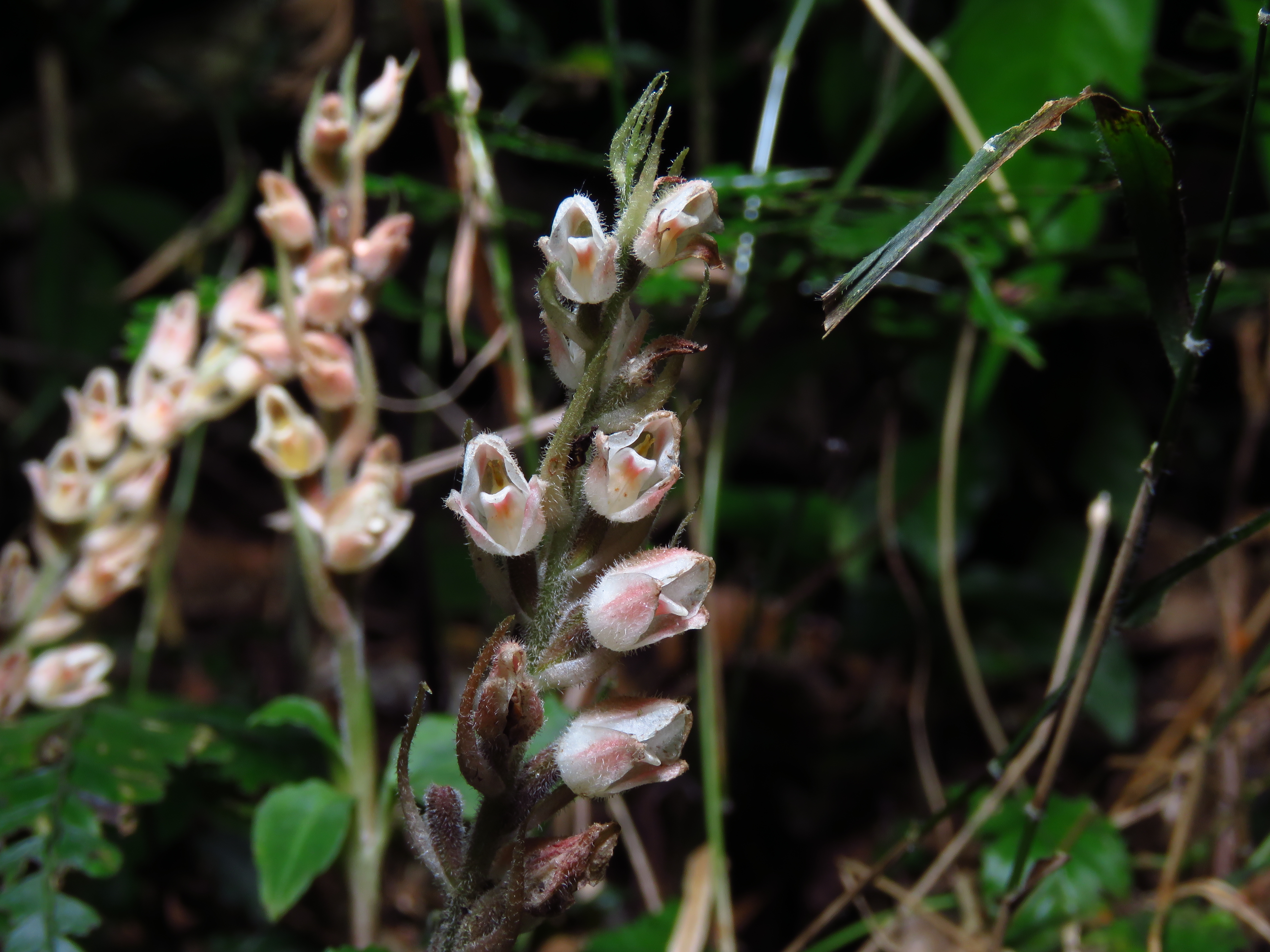 Taken in Yangmingshan, Taiwan